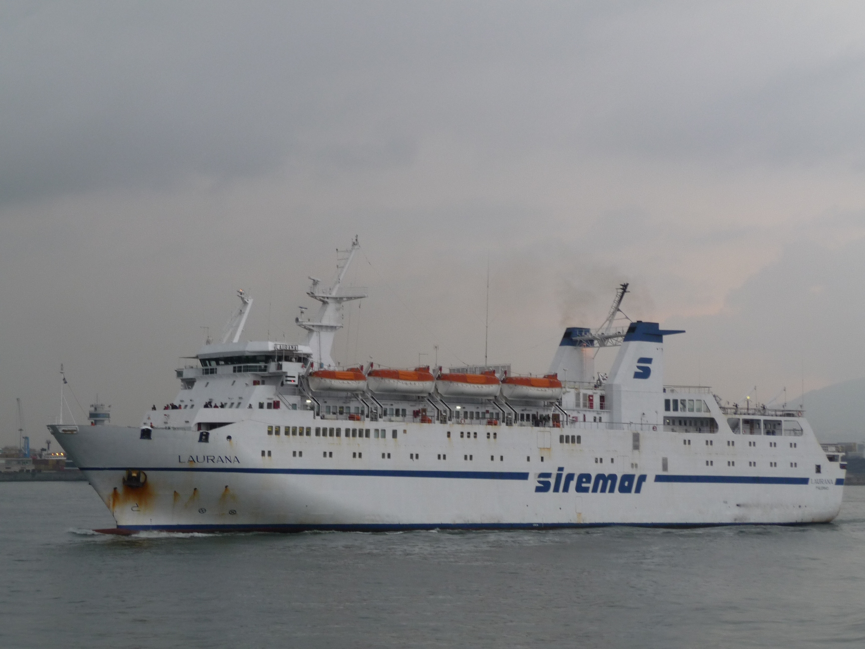 MS Laurana arriving to Naples harbour